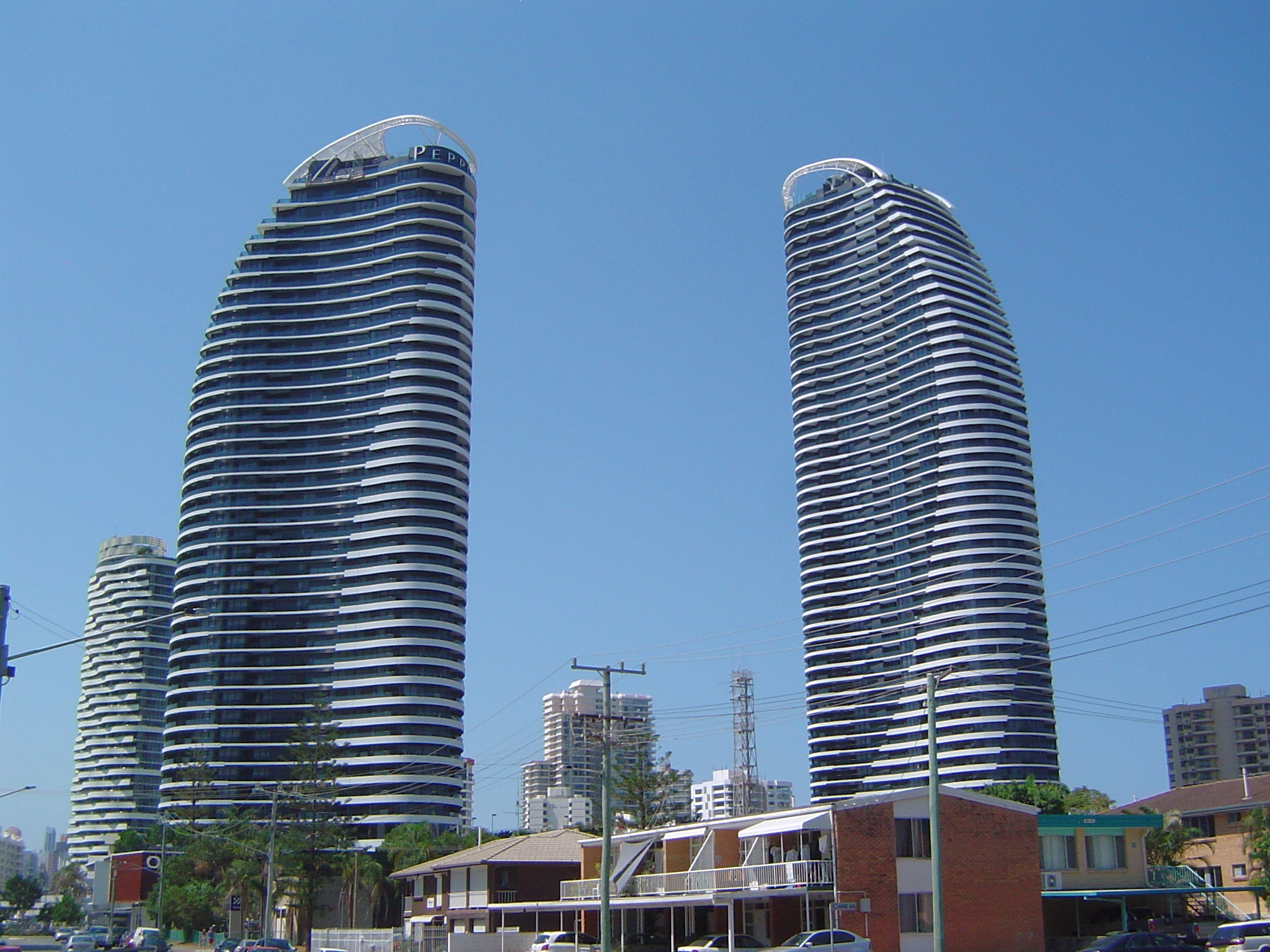 Photo of both towers of The Oracle at Broadbeach, Gold Coast, Queensland, Australia.